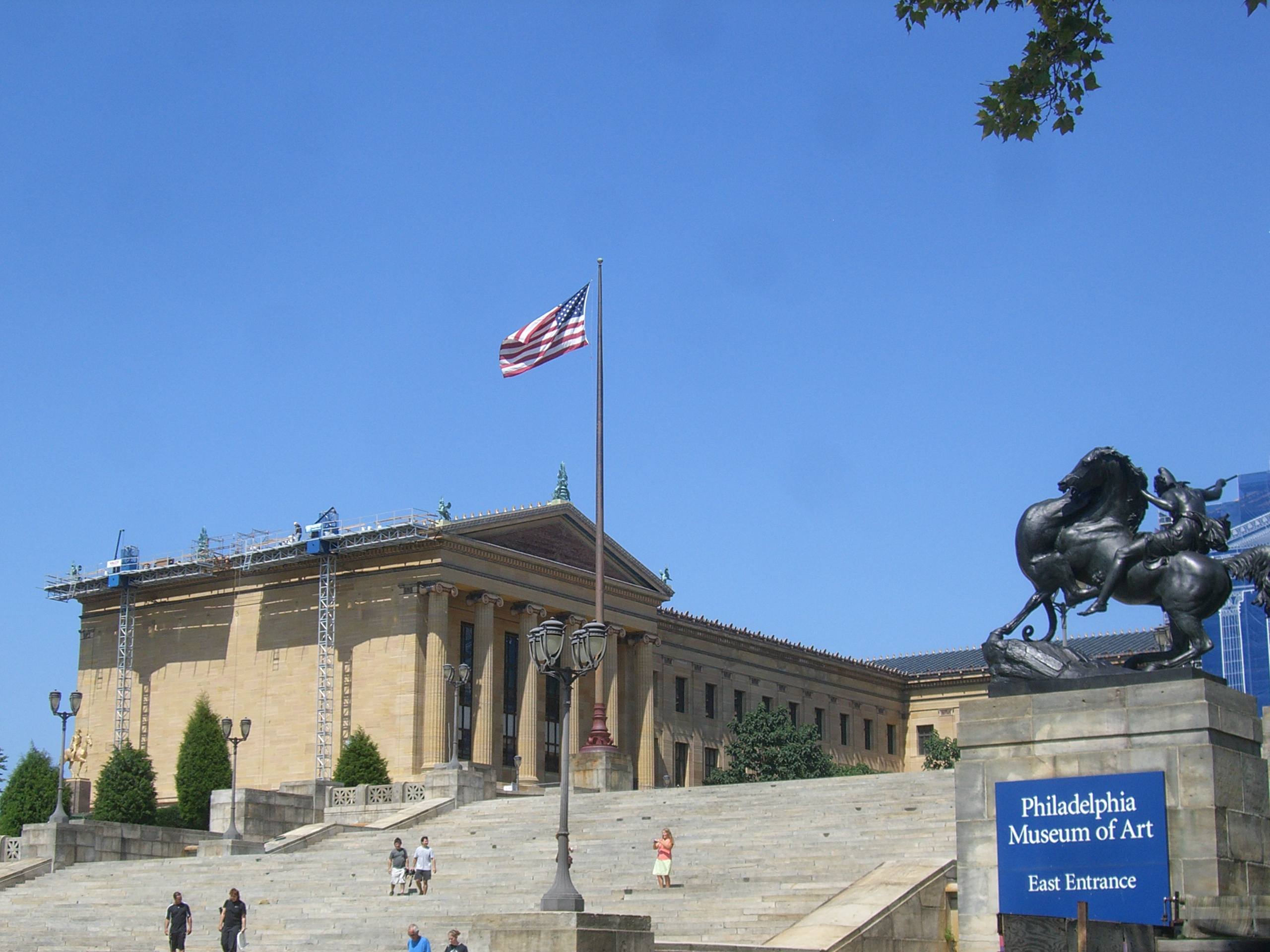 Philadelphia Museum of Art, USA